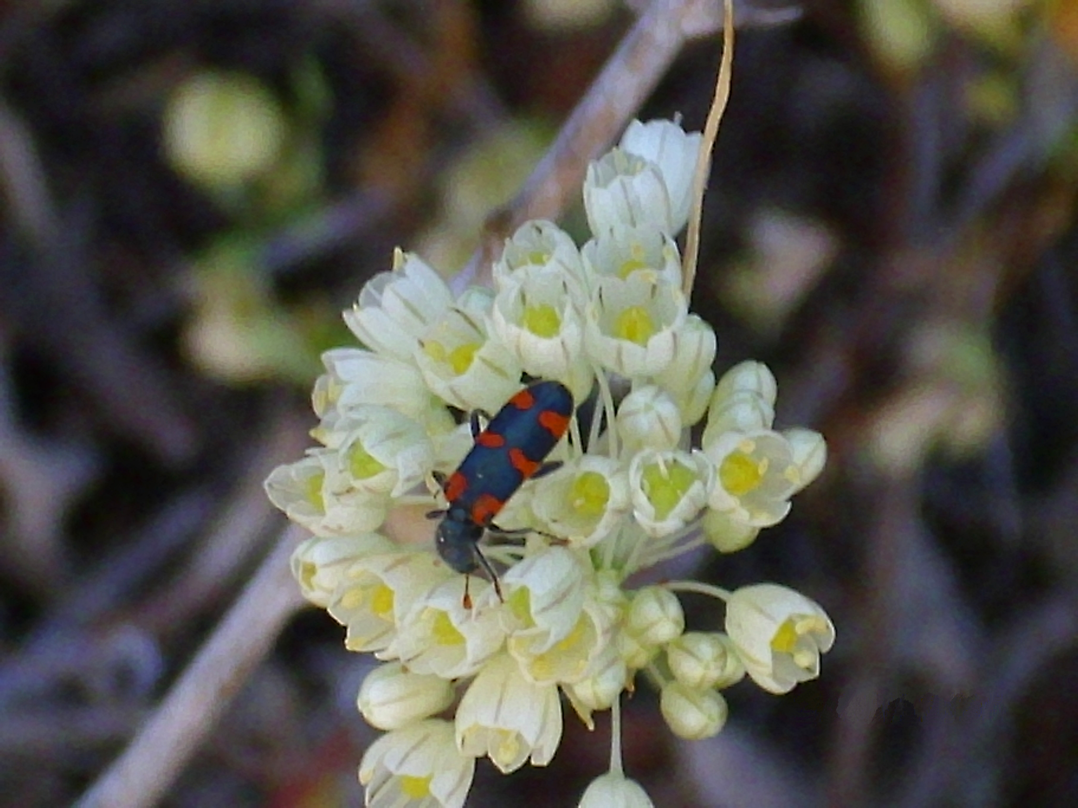 Allium pallens close up, Sierra Madrona, Spain